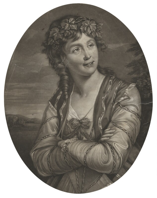 Ann Catley as Euphrosyne in Milton's 'Comus' by Robert Dunkarton after William Lawranson in 1777